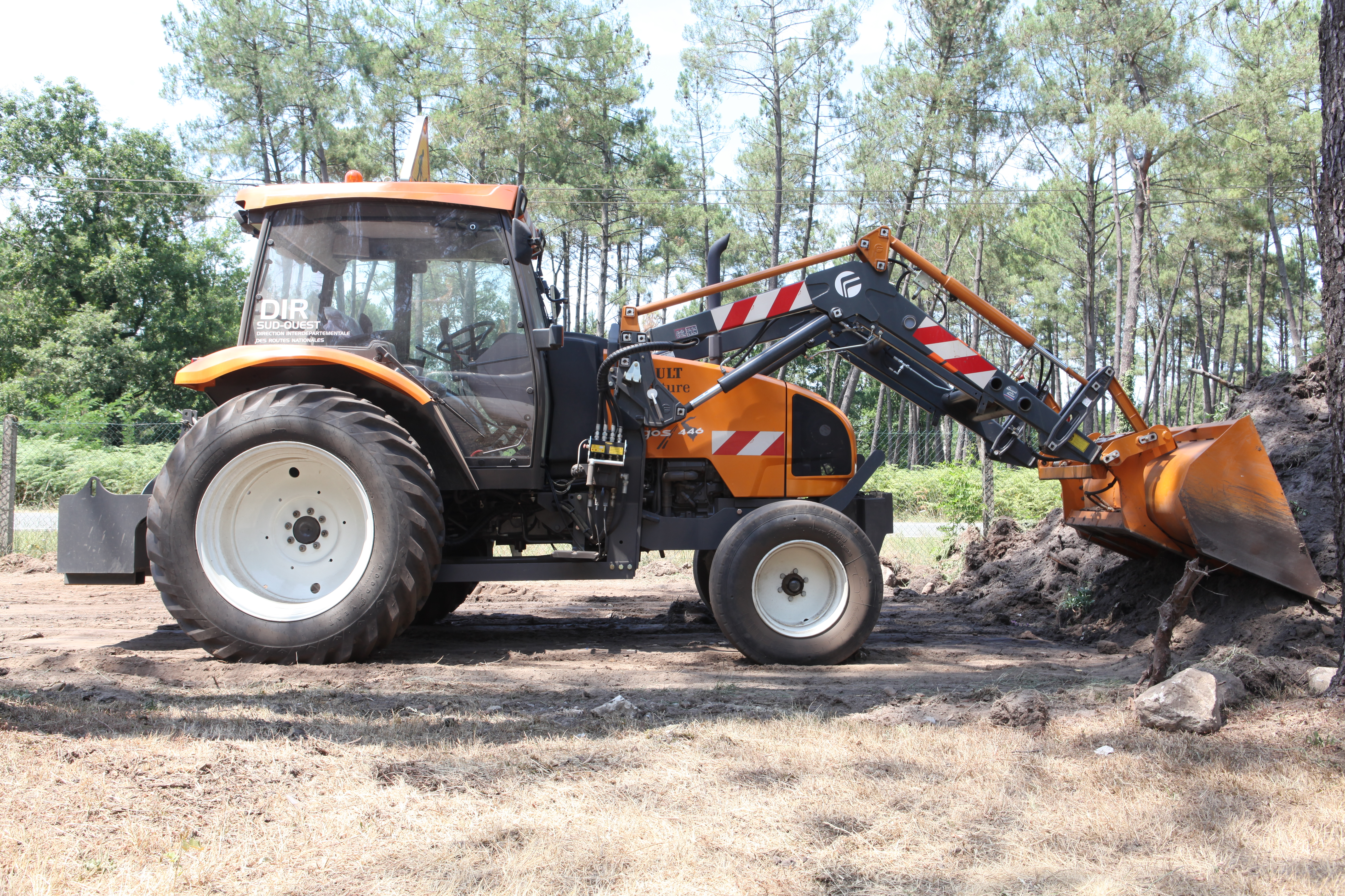 Renault Ergos 446 tractor with FEL